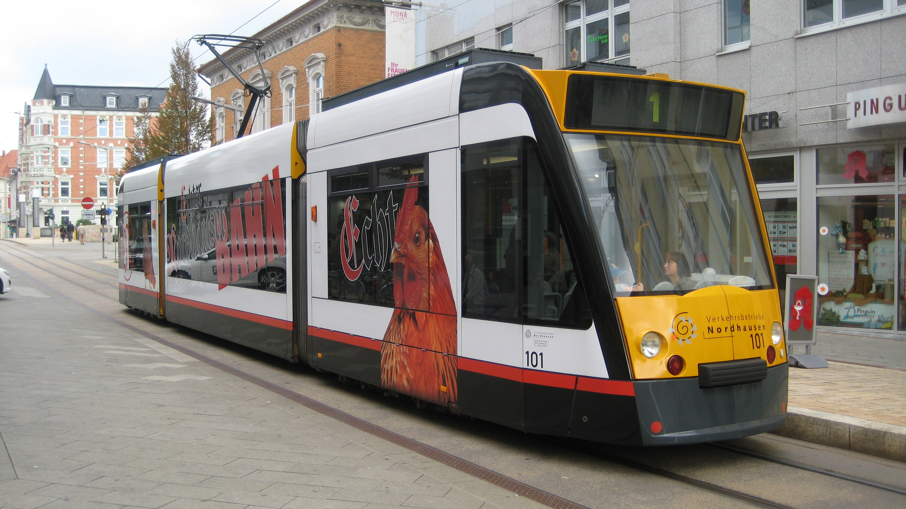 Tram 101 in Nordhausen (Germany)